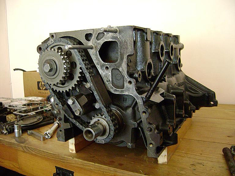 A freshly rebuilt 2TG bottom end. This one has been bored out to 89mm (from the standard 85). The crankshaft has been replaced with one from a 3TC, giving it an increased stroke. The engine has been fitted with forged Wiseco pistons and forged I beam connecting rods from Eagle. The timing marks for the lower timing chain are visible as lightly coloured steel links on the chain, matching with the timing marks on the crankshaft gear and the dummy shaft gear.